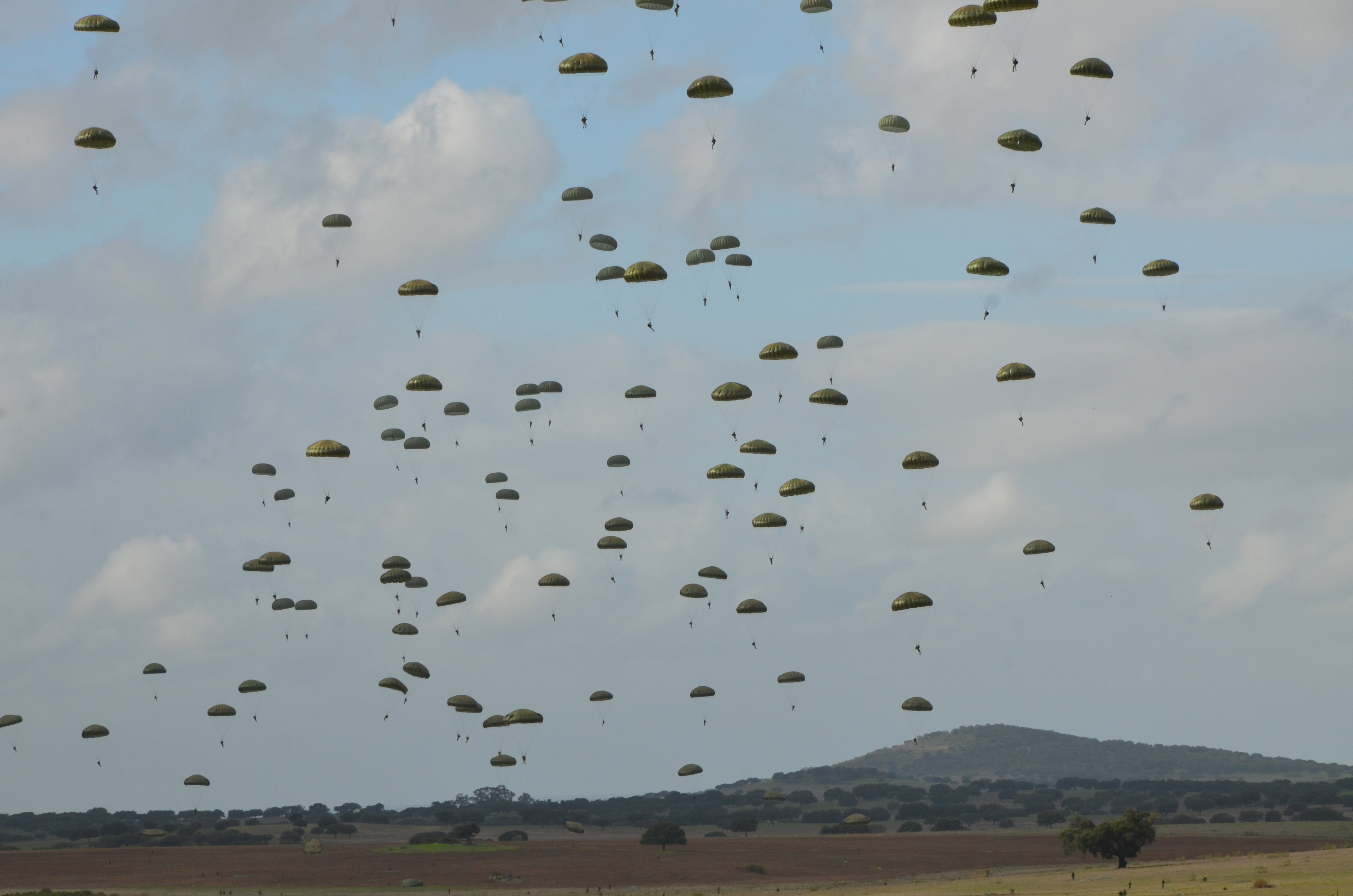 On 28 October, on the exercise TRIDENT JUNCTURE 2015, there was an interchange of military training between Canadian and Portuguese Paratroopers from the Multinational Brigade. This joint mission involved about 300 Paratroopers from the two nationalities and five aircraft: two American, two Canadian and one Dane. The military personnel began the preparation of the mission and embark on the North Hangar of the Support Unit of the Rapid Reaction Brigade Headquarters, in Tancos military area, and they were dropped in Silveira, Alter do Chão. The main propose of the exercise was to ensure the operational proficiency of the elements of the Multinational Brigade in joint training component on air operations, adopting terminology, methodology and procedures issued by NATO. Consolidating the procedures and validating the technical and tactical procedures. NATO photo by PAO - Santa Margarida LOPSCON